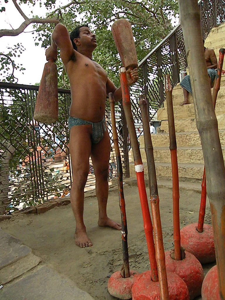 A traditional Indian wrestler training at a wrestling Akhara